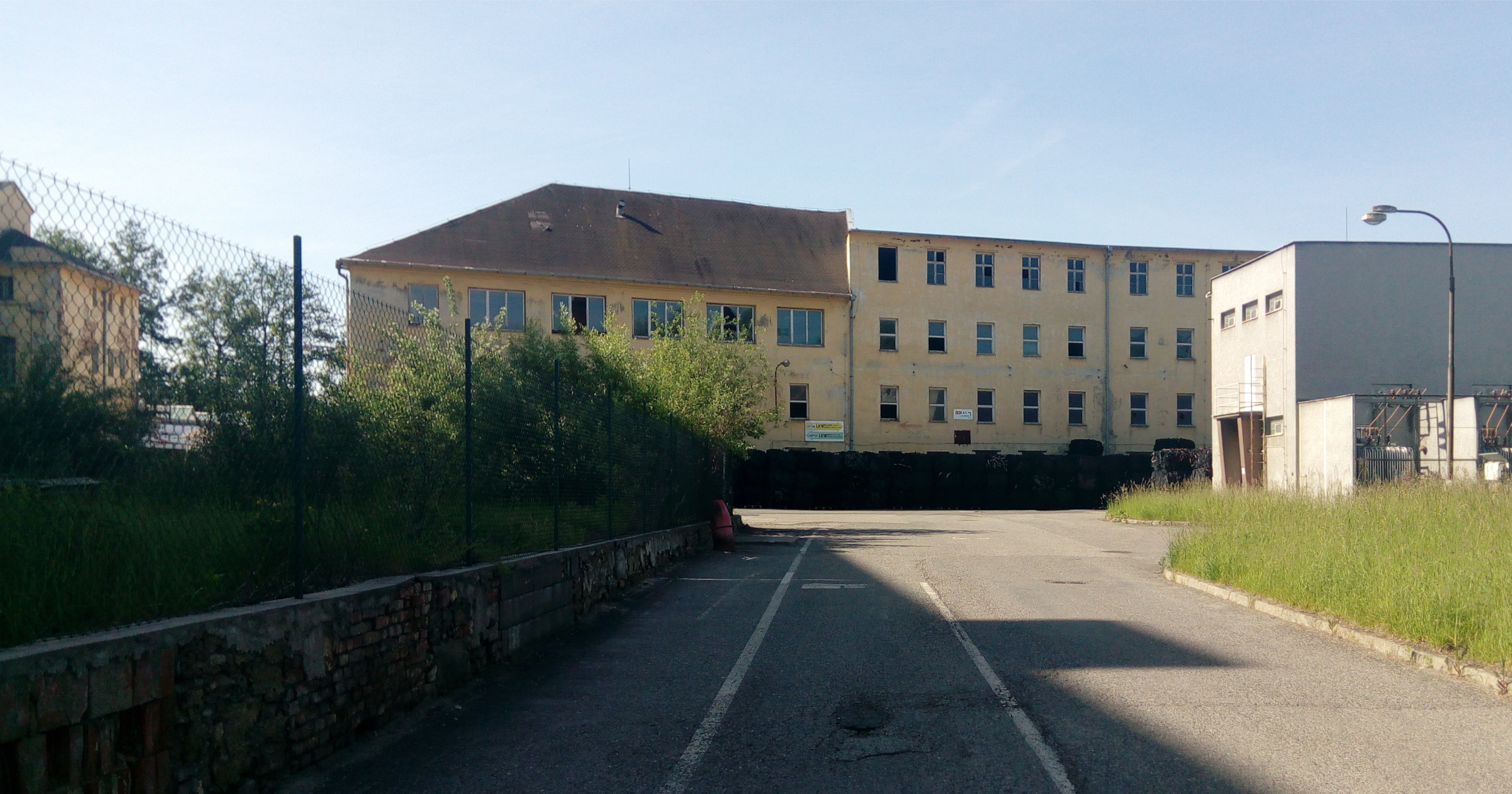 Na Dubovci No 127, part of the former textile company Fezko in the town of Strakonice, South Bohemian Region, Czech Republic